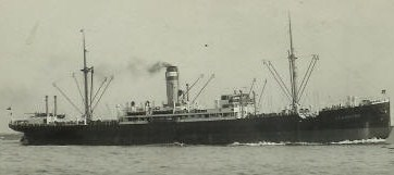 The German Freighter Dortmund 1926